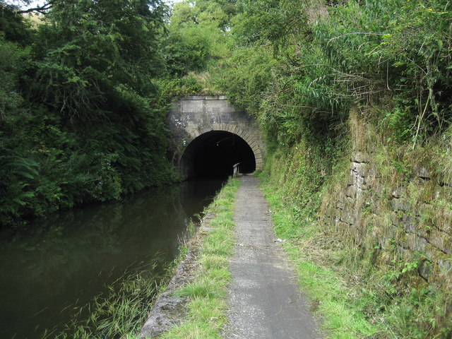 Entrance to Falkirk Tunnel The south eastern end of Falkirk Tunnel, where the Union Canal disappears from view for about half a mile. It is now possible to follow the towpath through, giving the experience of walking through a manmade cave complete with watery drips,stalagmytes and stalagtytes.